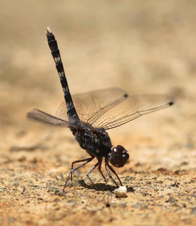 Granite Ghost.